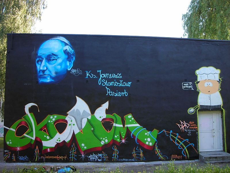 A wall covered by graffiti on Zespol Szkol Ekonomicznych in Tczew, Poland